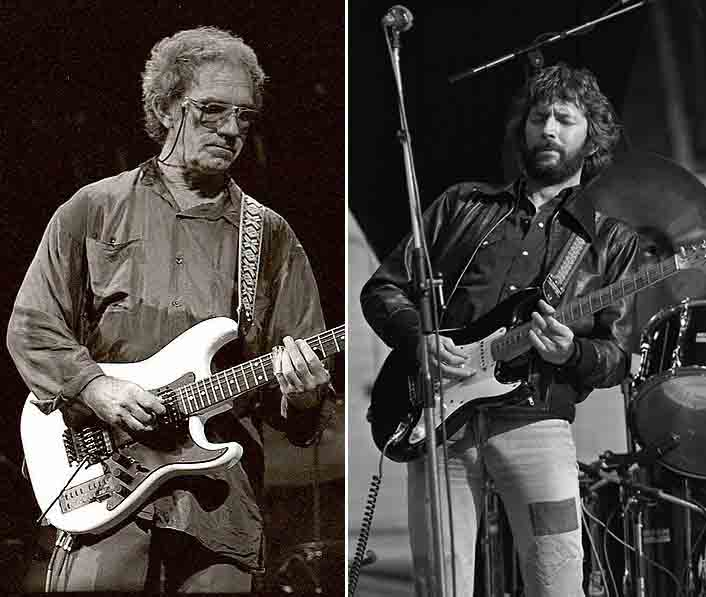 This picture is a collage put together from the two File:EricClaptonCrash12002.jpg and File:J.J. CALE.jpg that were uploaded with a license for duplication and re-utilization.